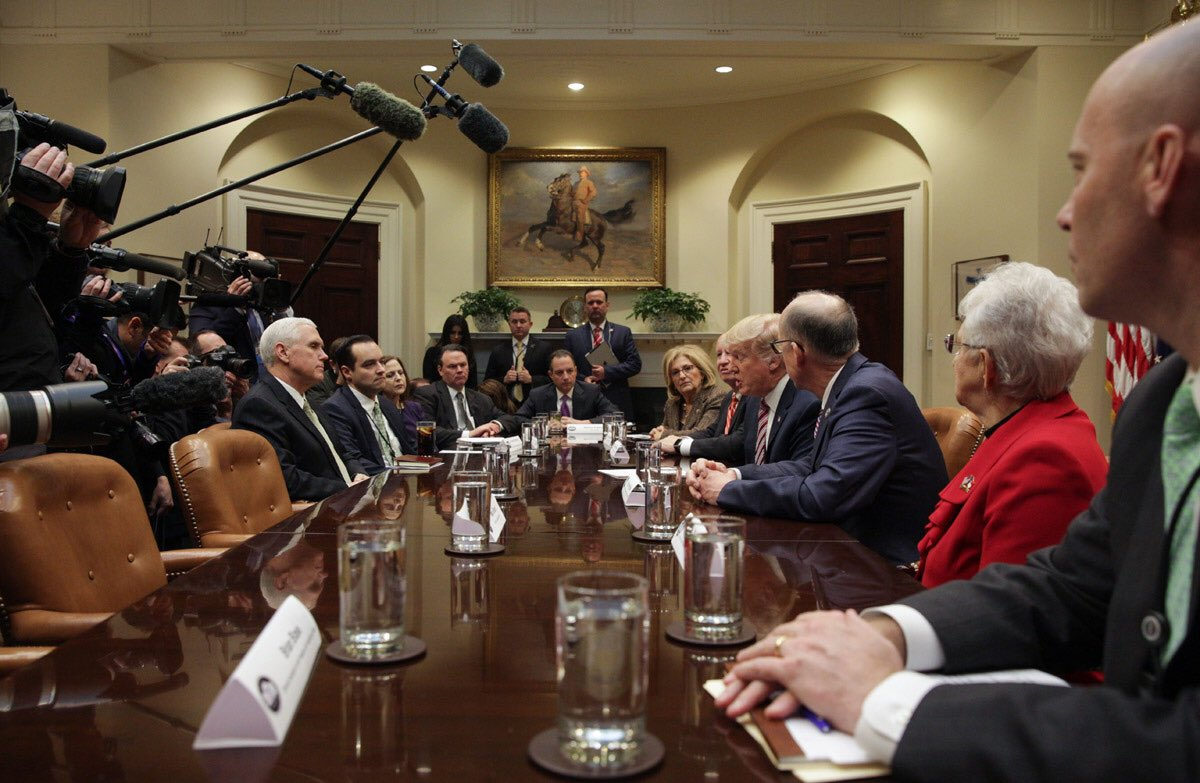 Today, we welcomed our partners in Congress to the @WhiteHouse as we work toward bringing positive change to our broken healthcare system.